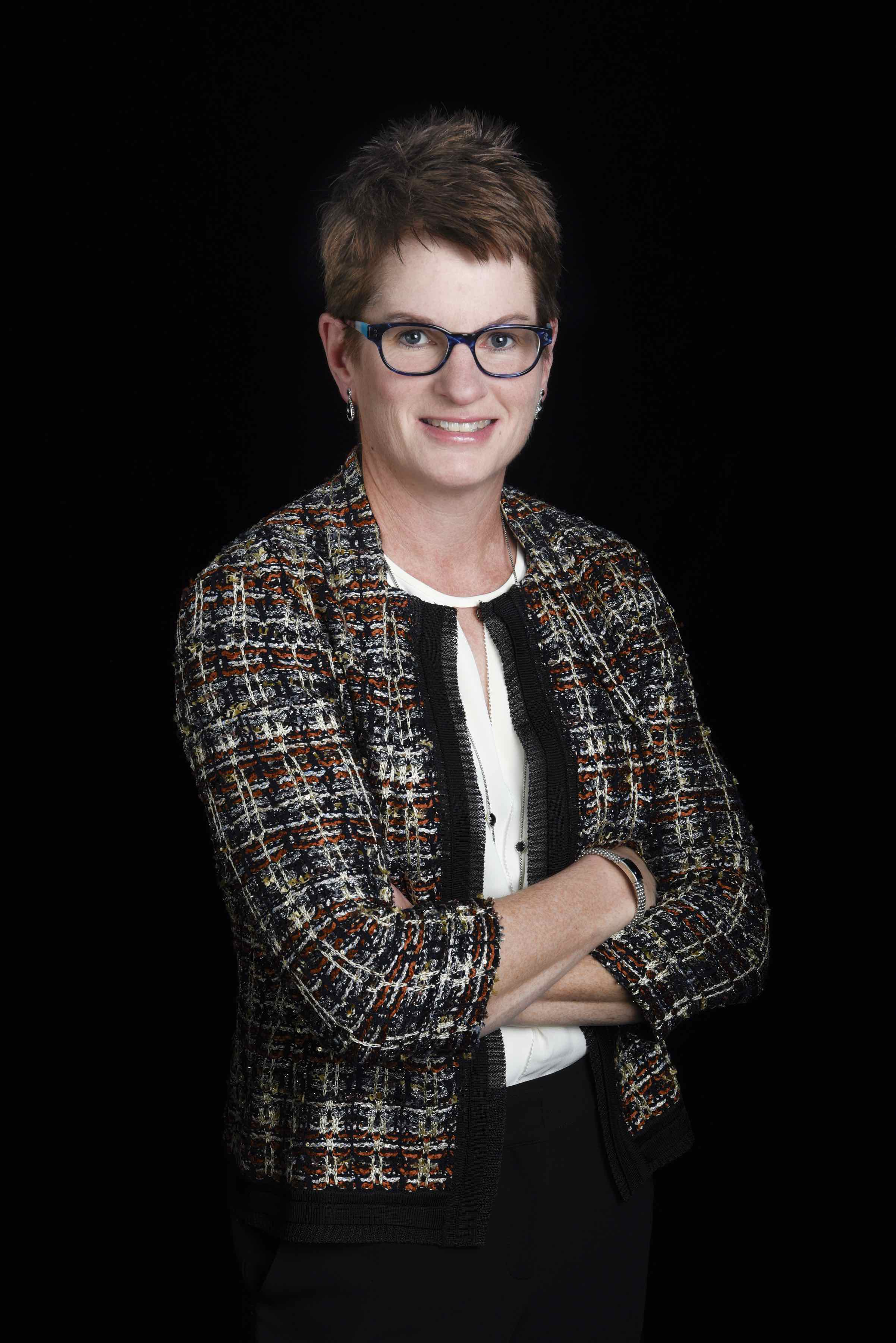 This is a portrait of Erin O'Shea, Ph.D., who is currently vice president and chief scientific officer at the Howard Hughes Medical Institute (HHMI). O'Shea was named HHMI's sixth president and will begin in that role on September 1, 2016.